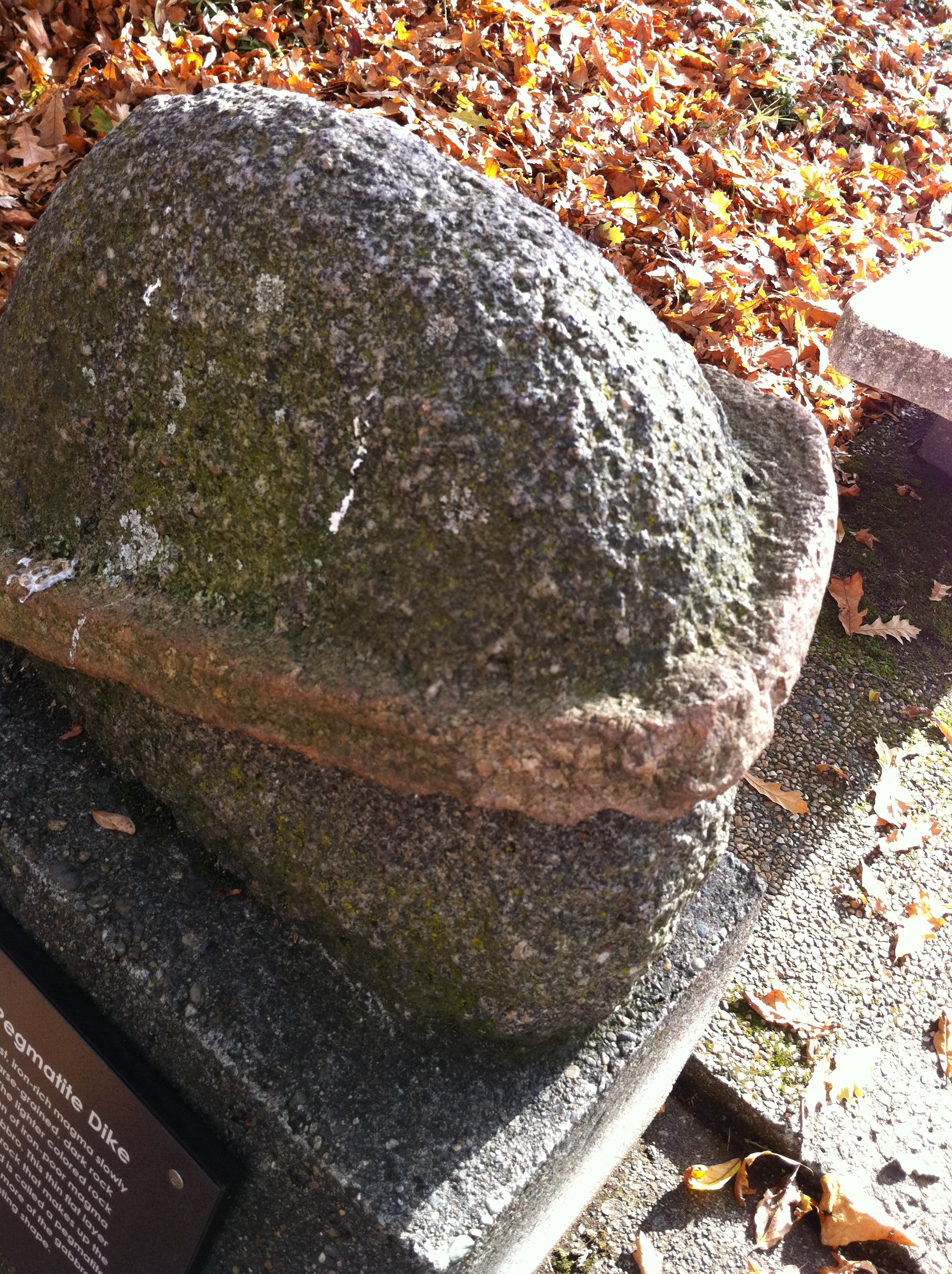 Taken at the Burke Museum at the University of Washington Campus in Seattle